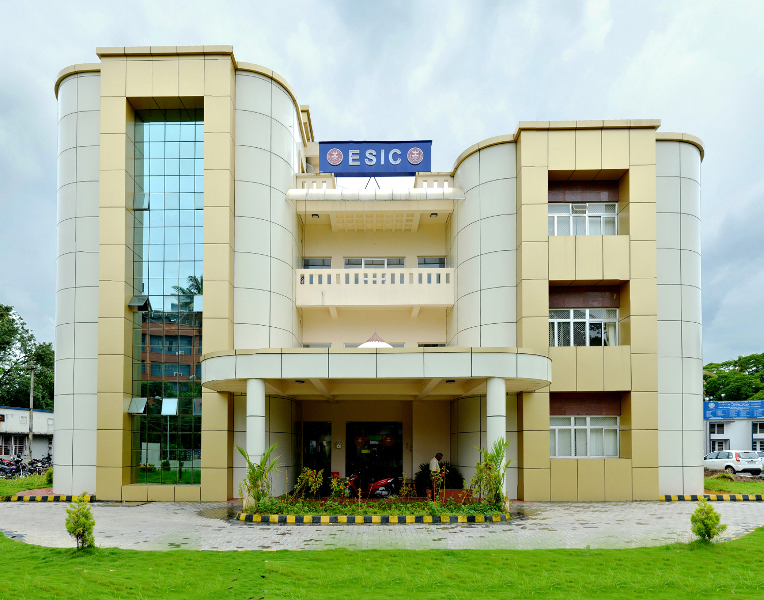 Ernakulam ESI hospital new building situated near to Ernakulam Town north railway station